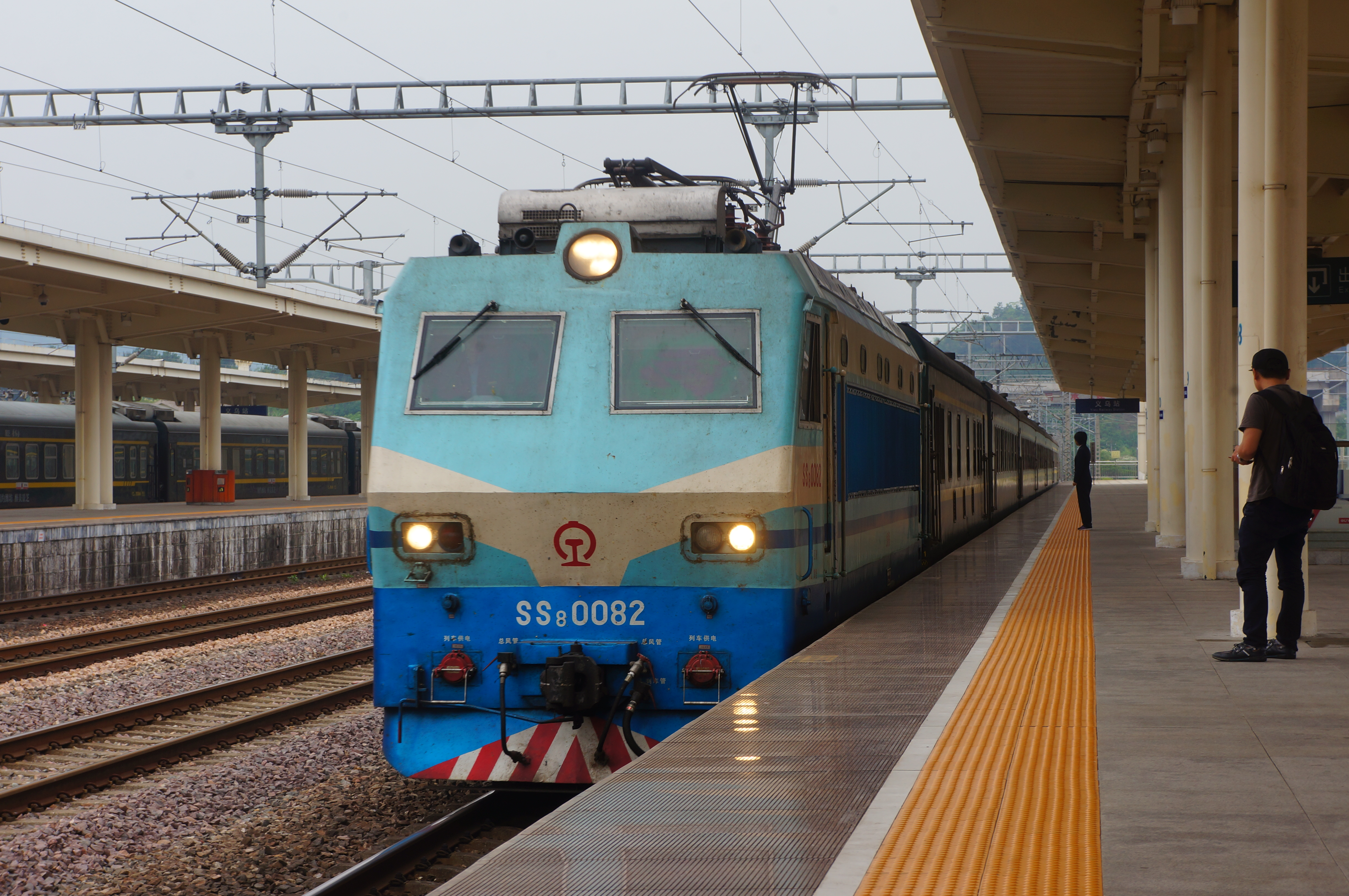 201806 SS8-0082 hauls T82 enters into Yiwu Station. Completely coincidence.